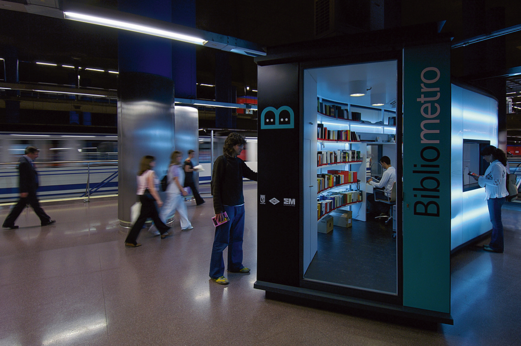 Bibliometro Subway Library This photograph can be used for publications, including this copyright statement: “©PromoMadrid, author Max Alexander”. Esta fotografía puede usarse en publicaciones, incluyendo la declaración “©PromoMadrid, autor Max Alexander”.